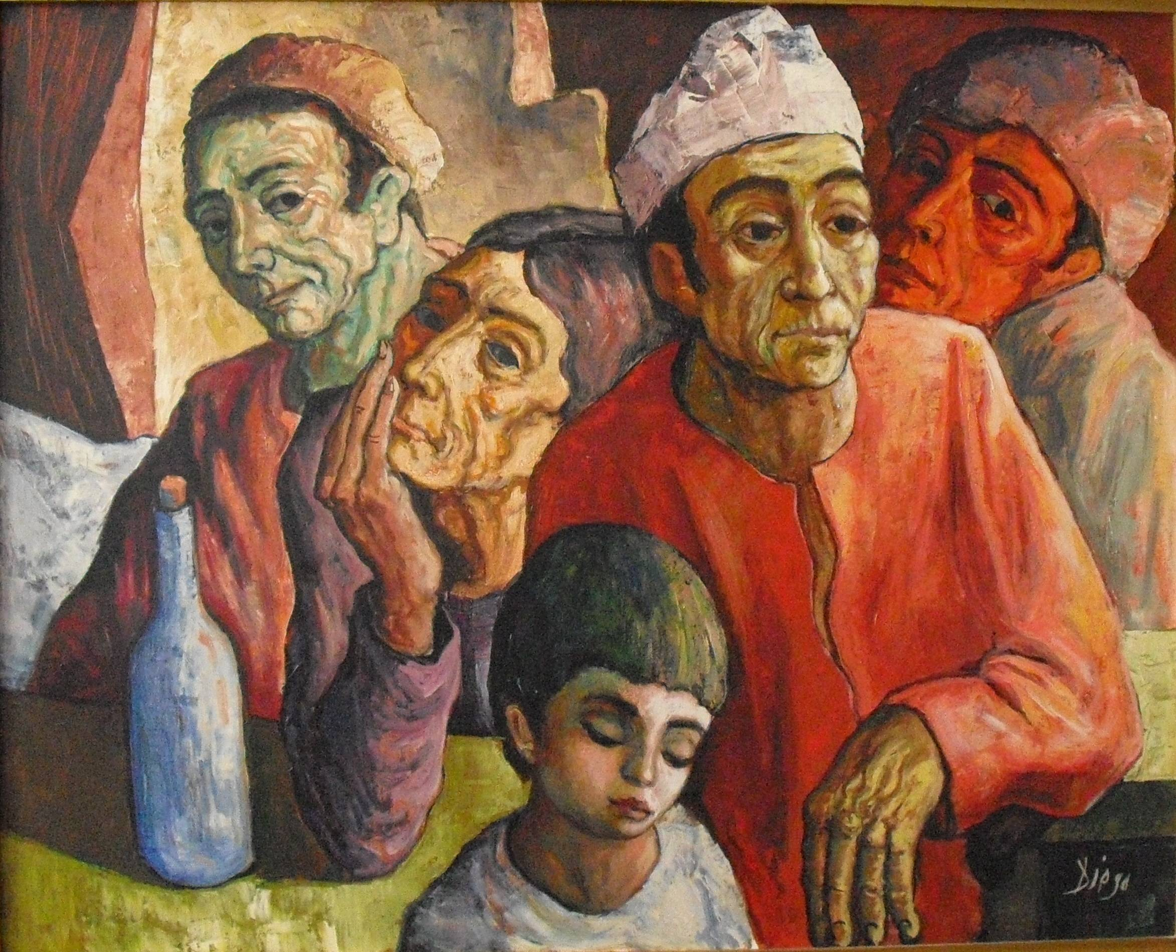 A DIEGO Voci painting “Italienishe Arbeiterfamilie”, 31 ½” x 39 ¼” oil on canvas